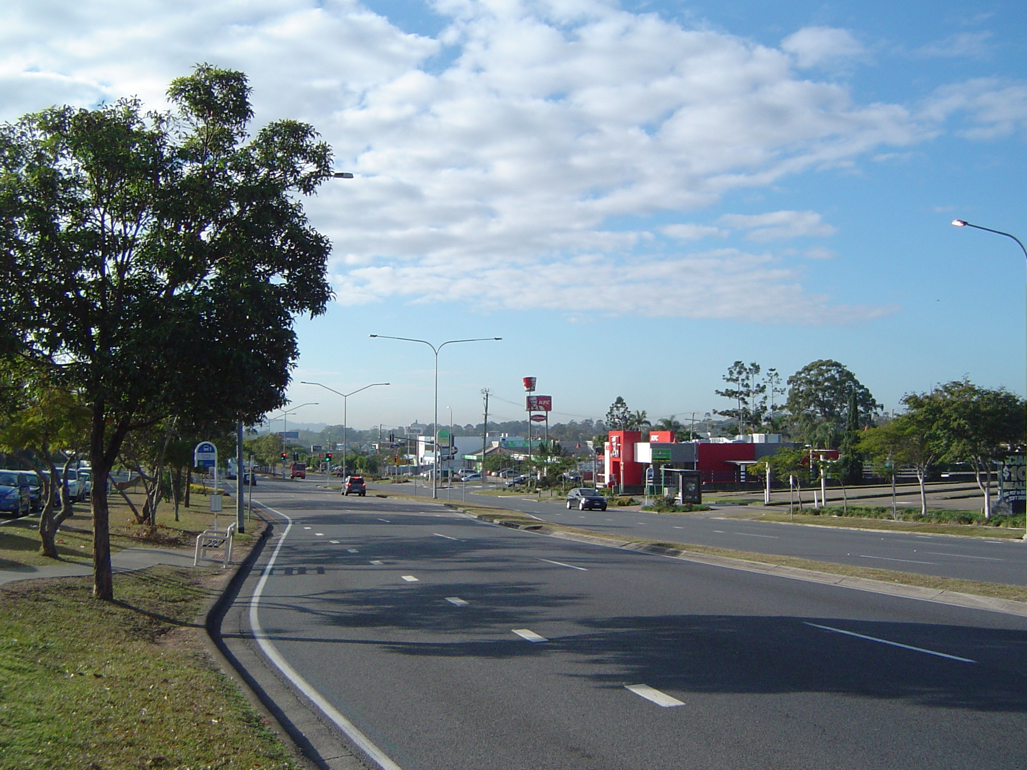 Wembly Road at Logan Central, Logan City, Queensland, Australia.